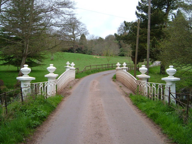 White Bridge, Oxton "Charmingly eccentric cast iron bridge", with Doric columnns (Cherry and Pevsner). Alas, it seems that the vases they admired have been replaced after the theft of the early C19 originals.